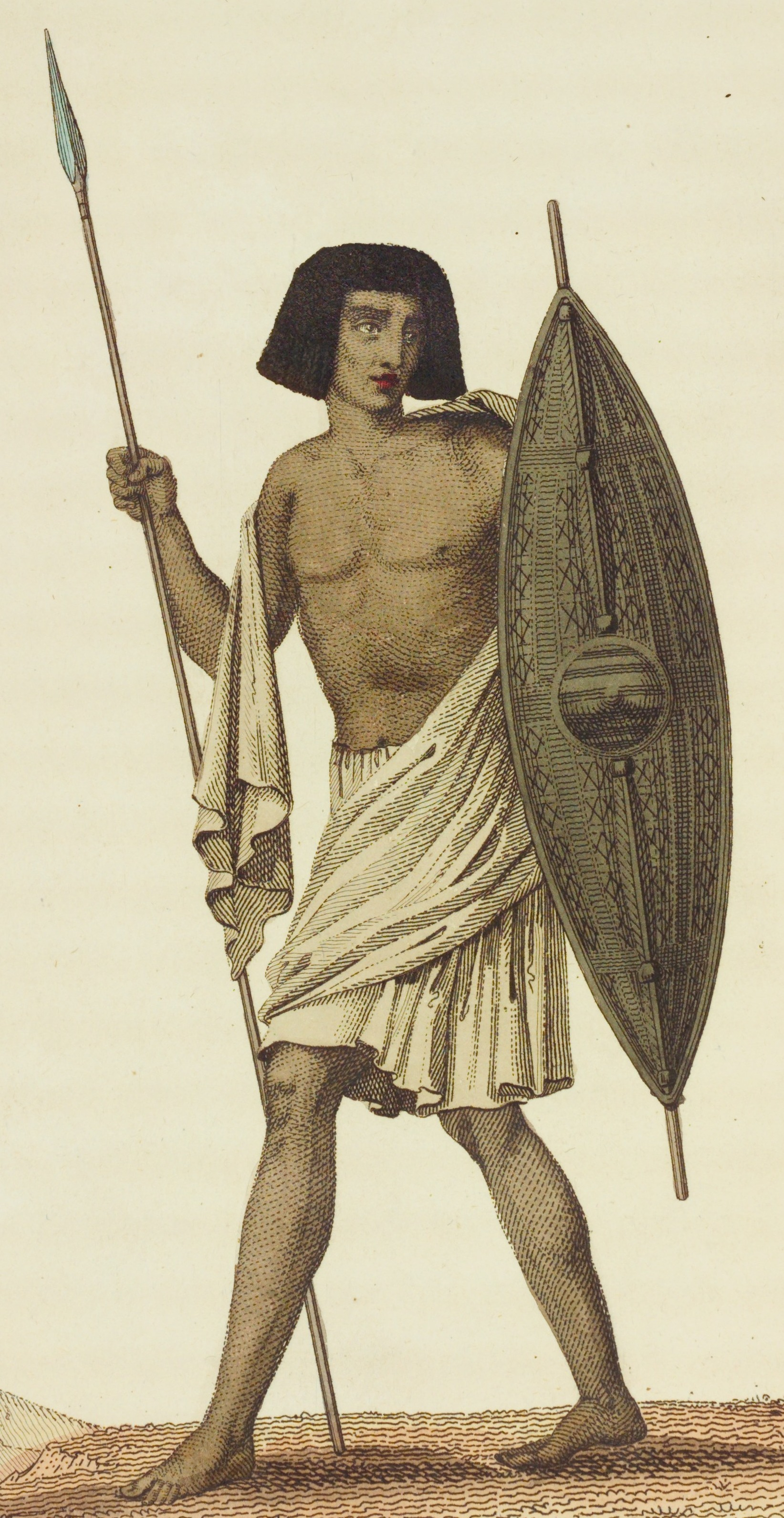 Costume of the shaigiyah